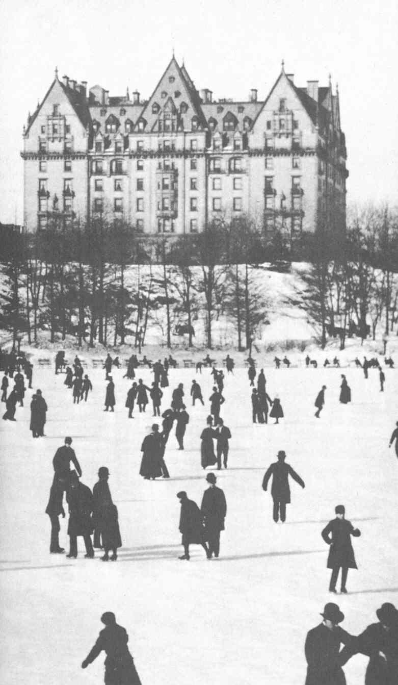 The Dakota building on a photograph from the late 1880s.